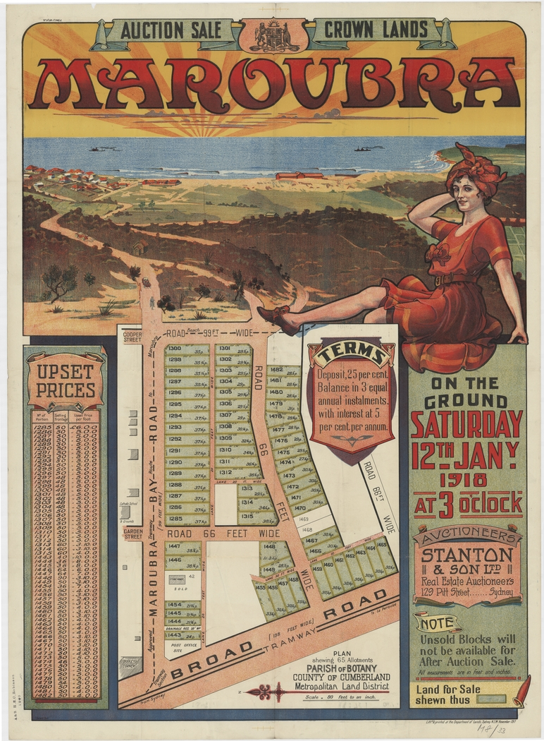 Maroubra subdivision plan, 12 January, 1918, Stanton Auctioneers, State Library of New South Wales Z/SP/M8